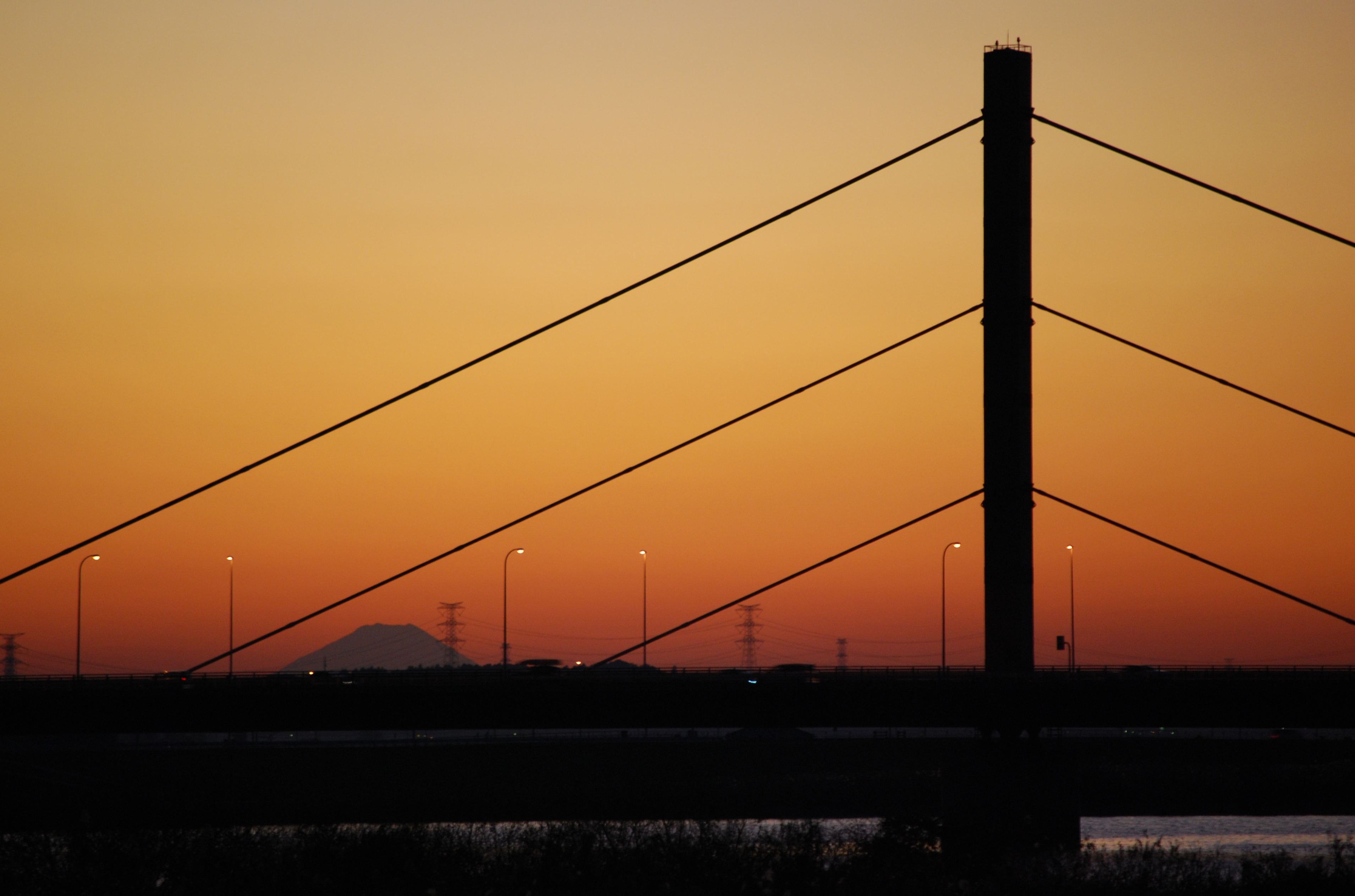 Suigo Bridge in Katori City, Chiba Prefecture, Japan, with Mount Fuji in the background. The mountain is 170 km away from the bridge.